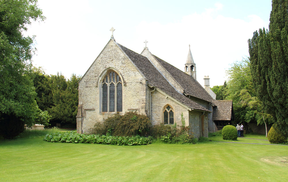 St Swithin's parish church, Quenington, Gloucestershire, seen from the northeast